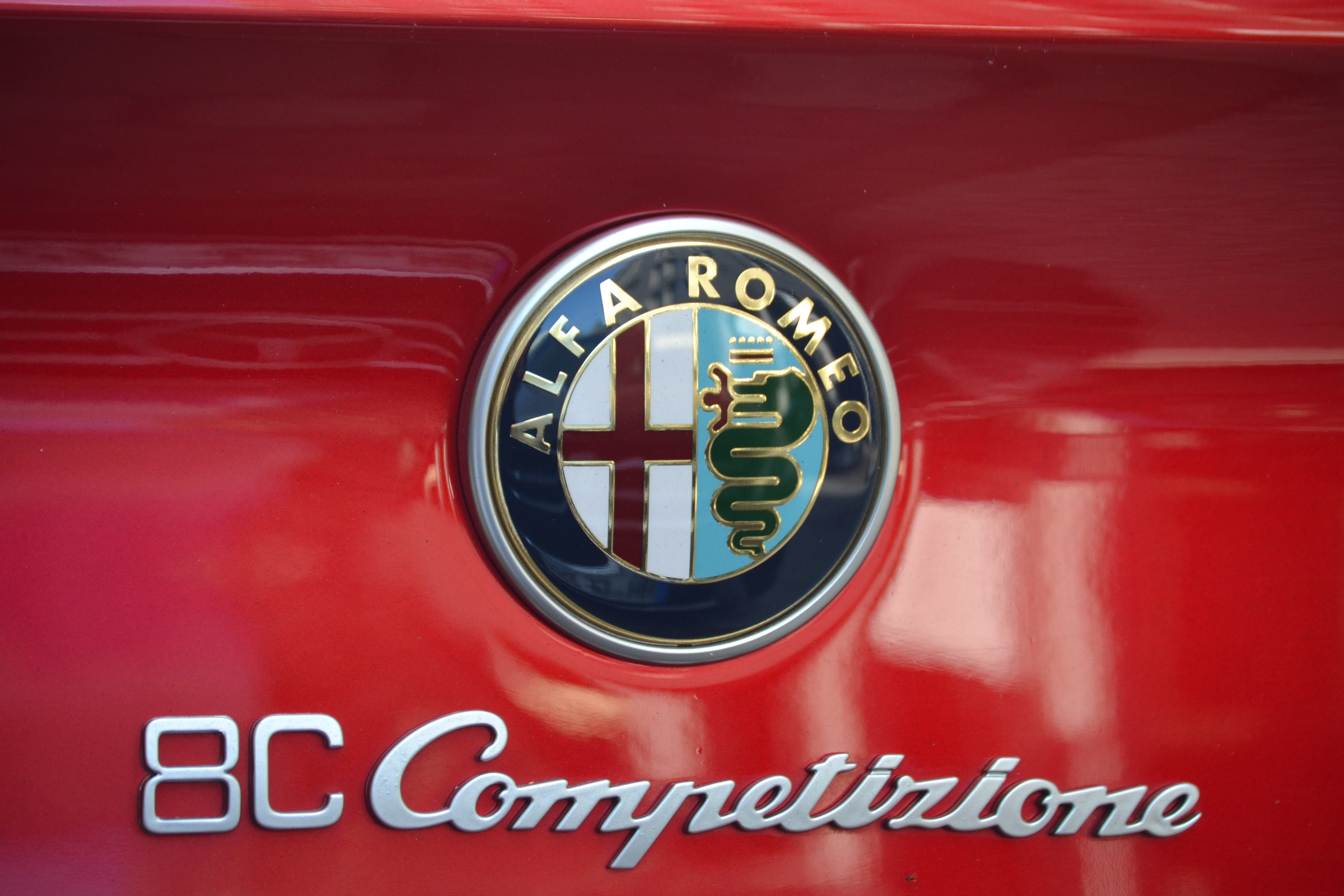 Alfa Romeo 8C Competizione, Detail